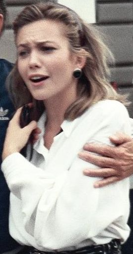 Diane Lane at the 1989 Emmy Awards